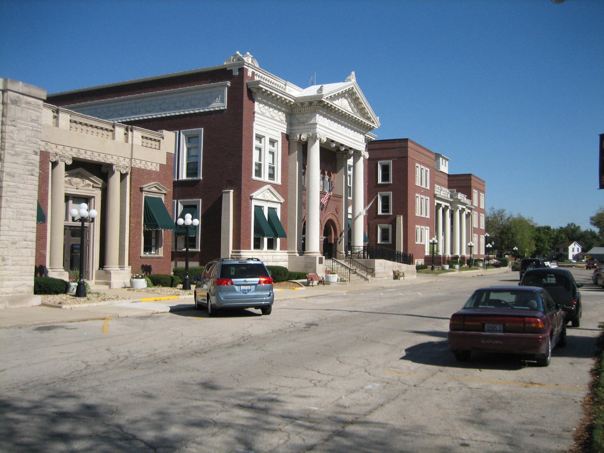 Dwight, Illinois, USA. Downtown.